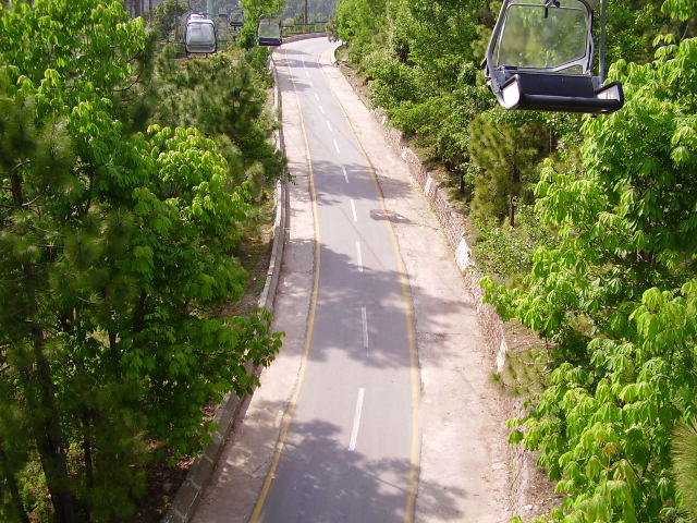 Muree-Muzafarabad Motorbike Trips 2006